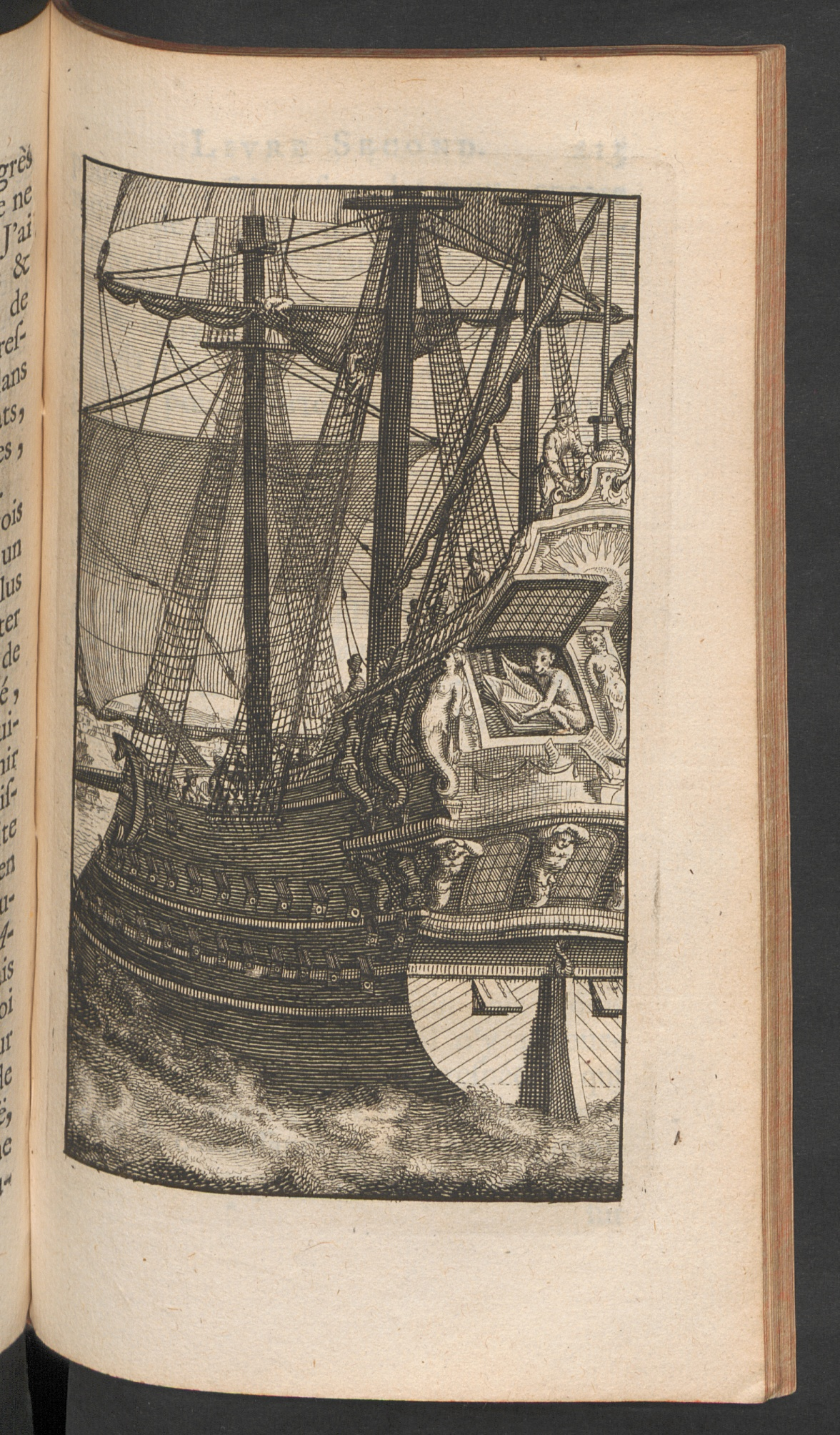 Engraving by François van Bleyswik for Th. More's Utopia translated in french by N. Gueudeville in 1715 (ETH-Bibliothek Zürich). This engraving (page 211) represents the ship on which Raphael Hythlodaeus travelled to Utopia. We can see by the lucarne a "Cercopithecus monkey" tearing out pages from books that R. Hythlodaeus took with him.